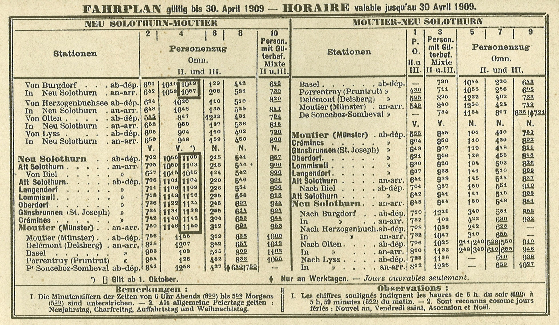 First timetable of the railway line "Solothurn-Münster-Bahn" from Solothurn to Moutier (Münster), Switzerland, valid until April 30, 1909. The line opened in August 1908.